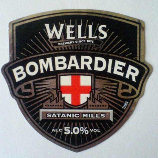 Bombardier - label